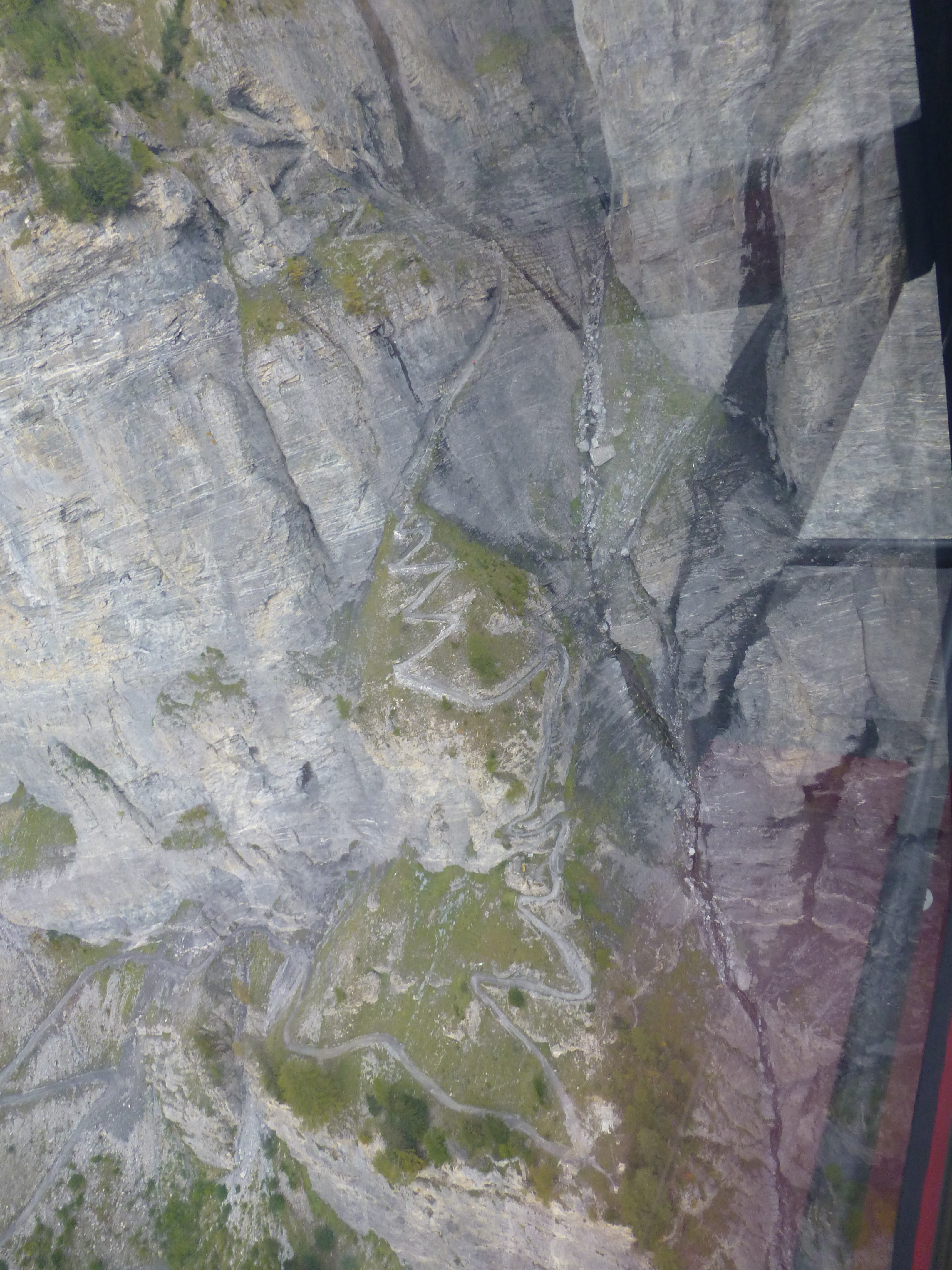 Hiking path from Leukerbad to Gemmipass. Signposts say that it takes two hours to do it